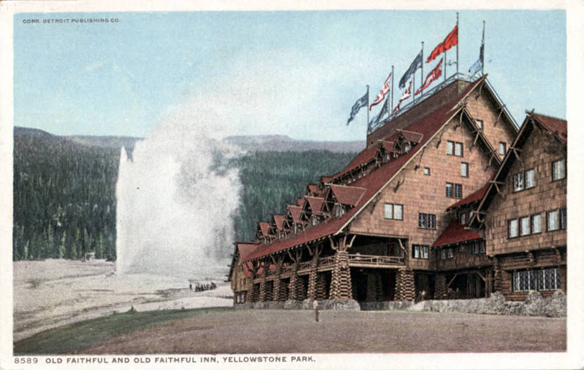 Postcard view of Old Faithful and the Old Faithful Inn in Yellowstone.